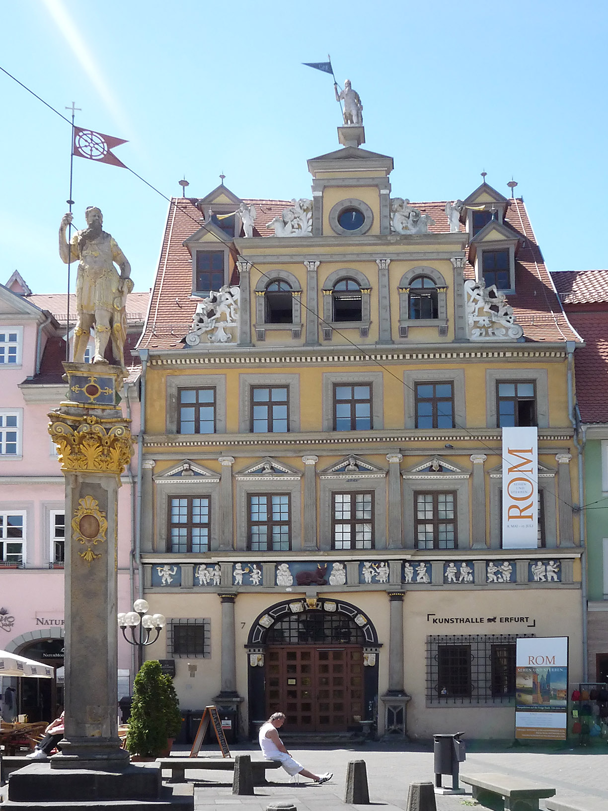 Roland-statue bevor the House to the Red Ox